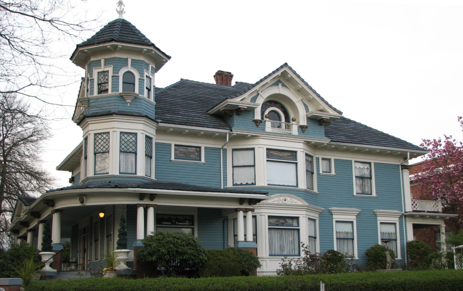 The historic Gustav Freiwald House at 1810 Northeast 15th Avenue, Portland, Oregon, United States, is listed on the US National Register of Historic Places. The building is currently in use as a bed and breakfast inn.